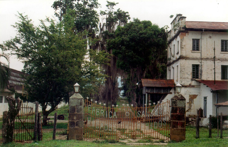 San Jose de Suaita Cotton Mill Museum — in San José de Suaita, Colombia. Ruins of the San Jose de Suaita cotton mill.